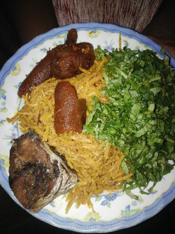 Nri a bu Abacha a na esi ka li ya na ala igbo oka cha si mbge a na Eme meme di ka ime ego nwanyi ma obu I wa ji This is an image of food from Nigeria